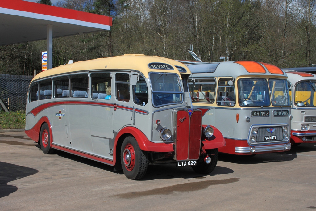 Two preservedcoaches at the Heathfield depot of Grey Cars operation during an open day to celebrate the 100th anniversary of the Grey Cars operating coach tours in south Devon. On the left is LTA 629, a 1950 AEC Regal III with Duple 32-seat body. On the right is 960 HTT, a 1962 AEC Reliance with Wilowbrook Viscount 41-seat body.